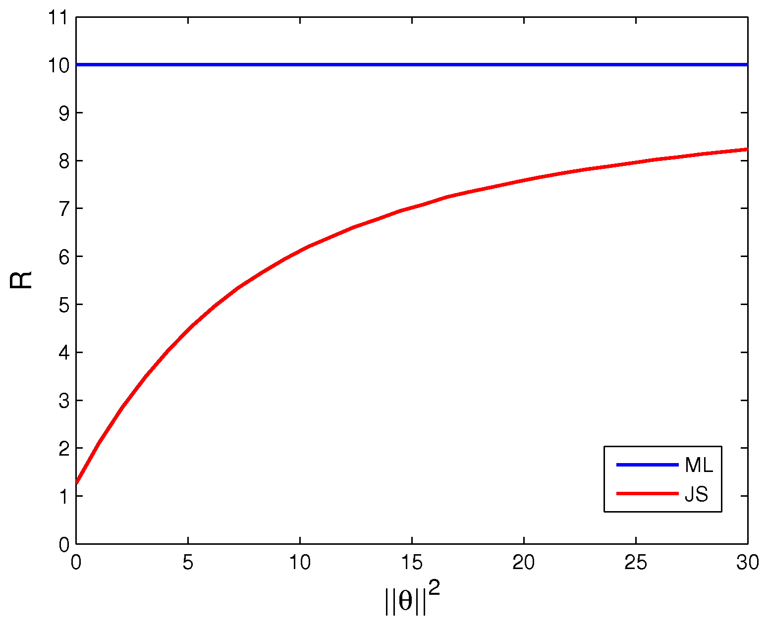 Mean square error of maximum likelihood estimator vs. James-Stein estimator